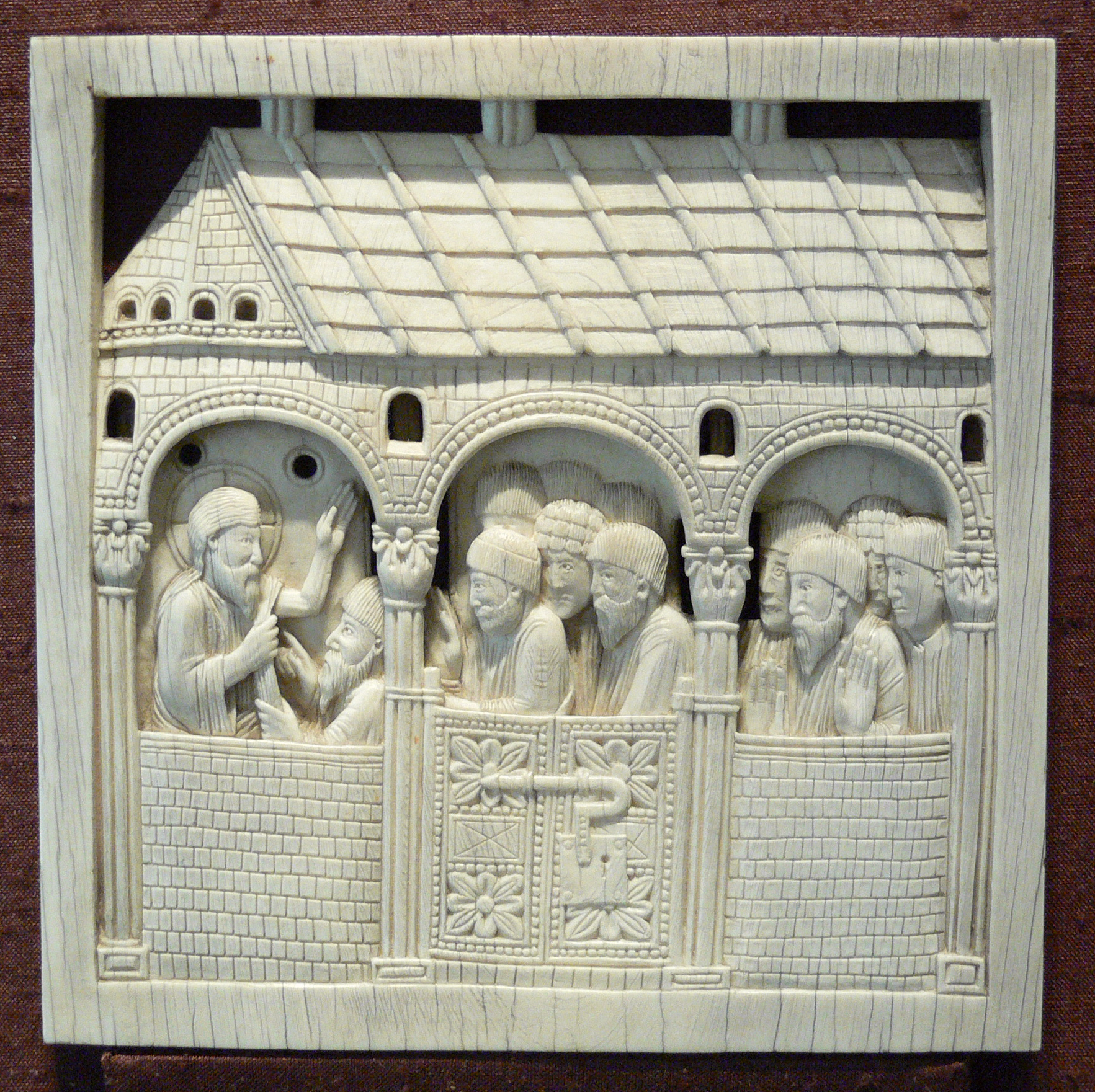 Christ Appears to His Disciples, Milan 962–973, ivory; one of the reliefs donated to the Magdeburg Cathedral by Otto I Bayerisches Nationalmuseum München, Inv. Nr. 17/418–420 (drei Reliefs)